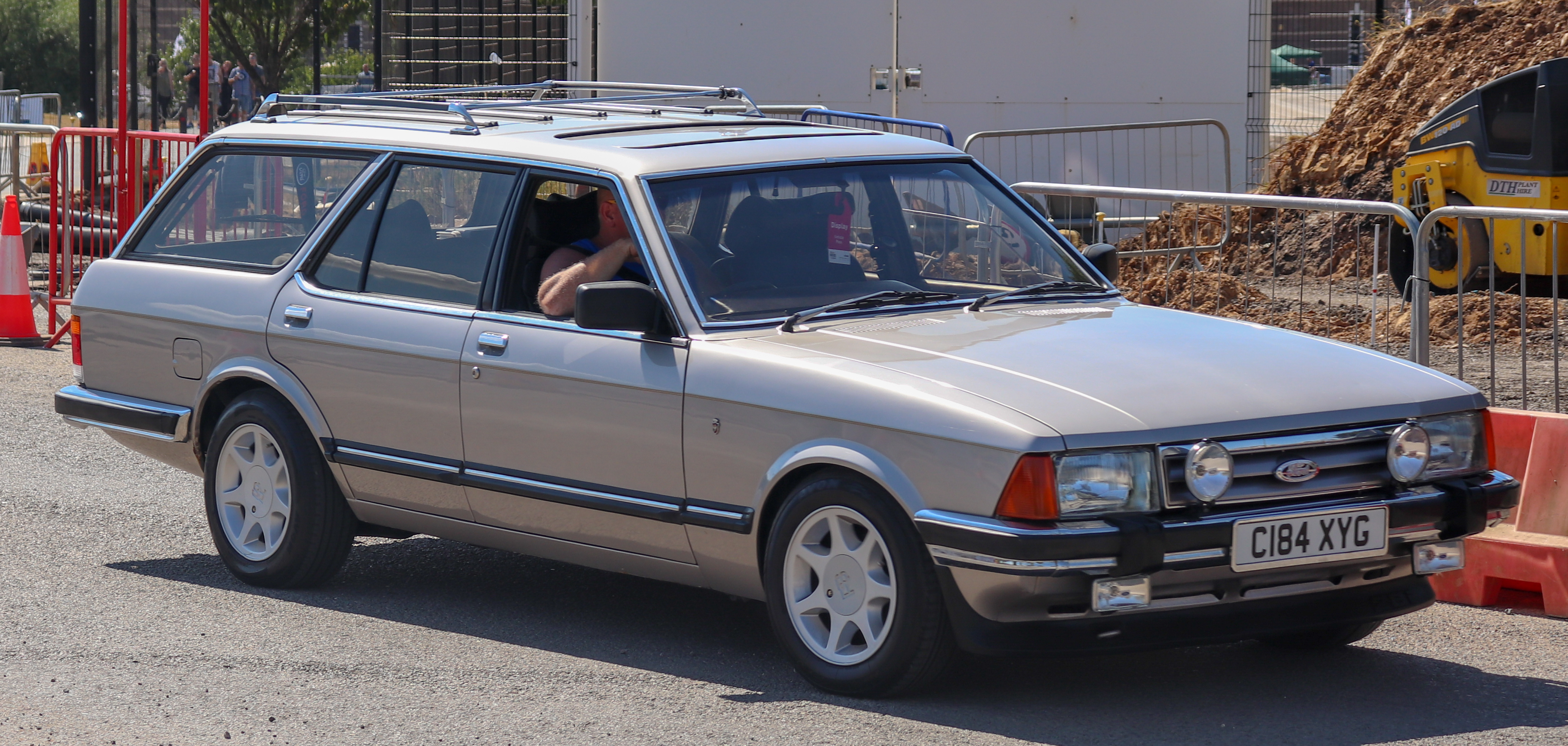 1985 Ford Granada Ghia LX Automatic Estate 2.8 Taken at the British Motor Museum Old Ford Rally 2018, Gaydon